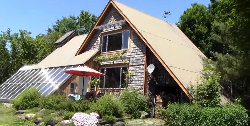 Green house Canada